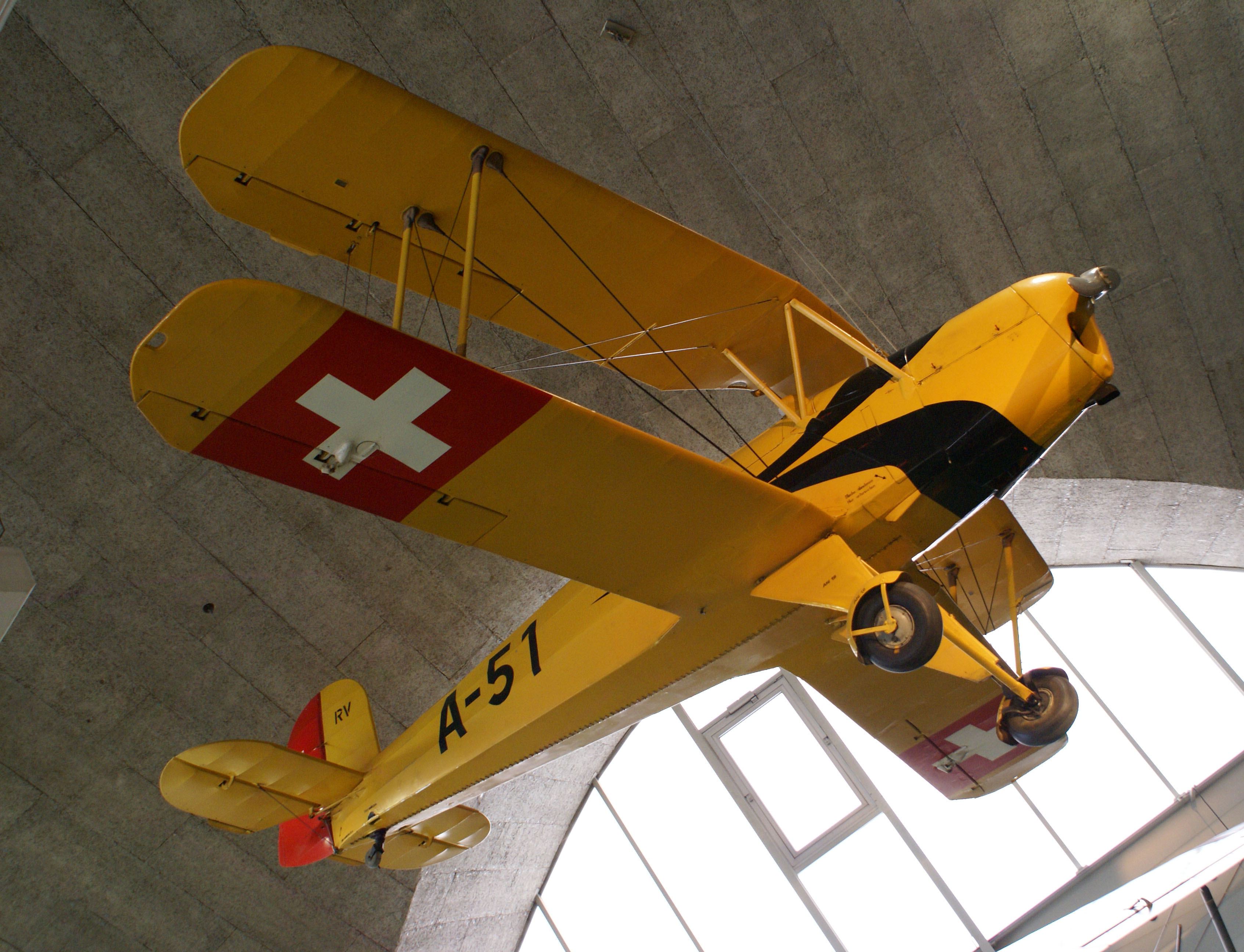 Bücker Bü 131-B trainer aircraft as used by the Swiss Air Force from 1936 to 1971.